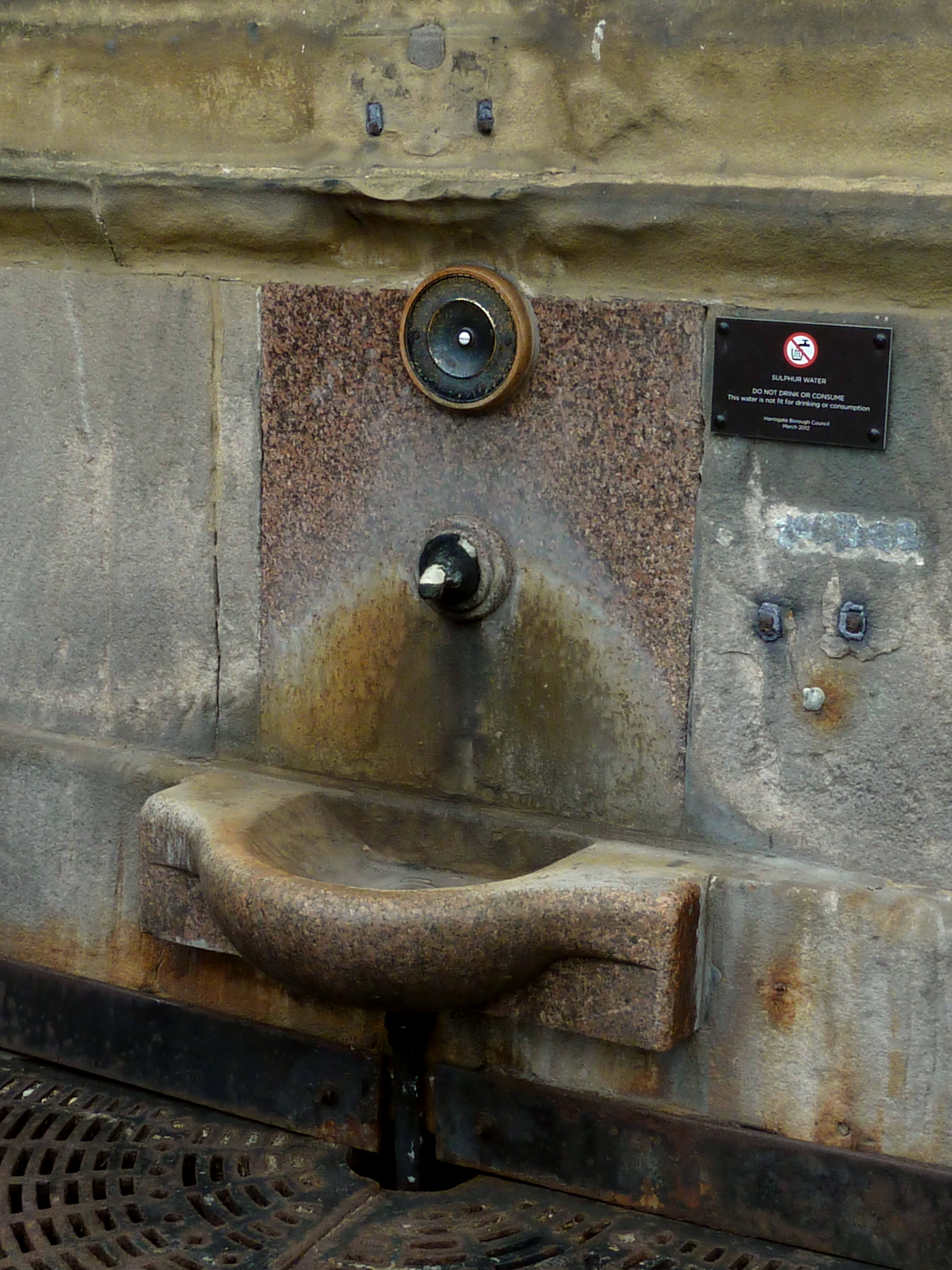 Royal Pump Room Museum, Harrogate, North Yorkshire. Designed by Isaac Thomas Shutt (1818–1879) in 1842. The glazed Annexe was added in 1913 by architect Leonard Clarke. Showing tap for free spa water.